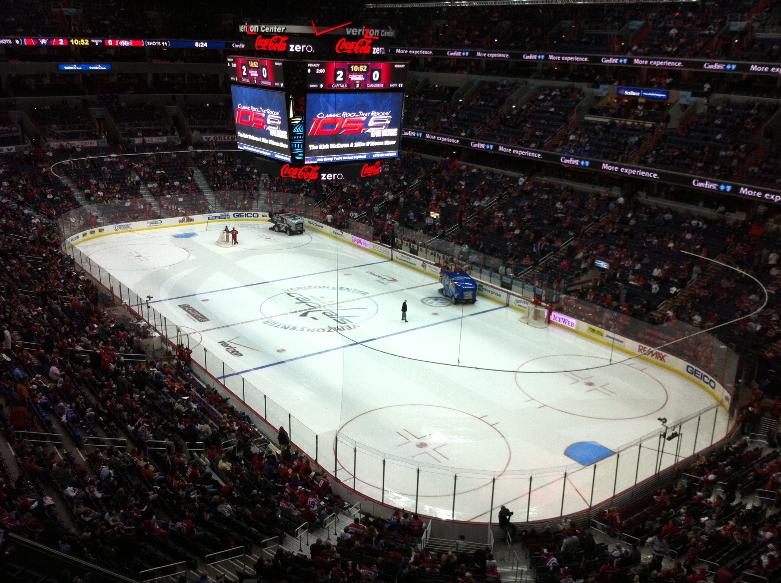 washington capitals vs montreal canadiens